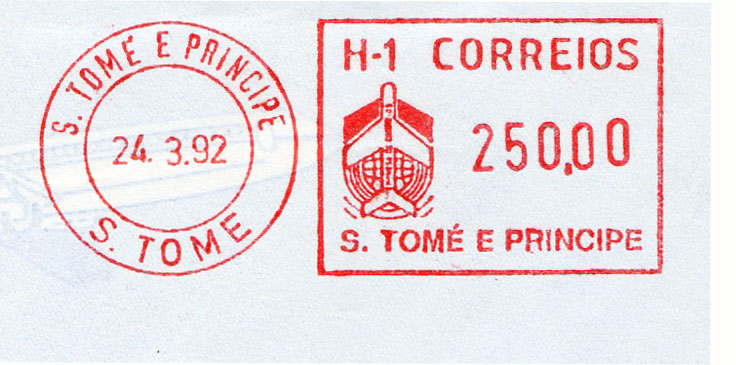 Meter stamp catalog image, Sao Tome e Principe type 1